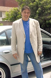 Attorney Paul Morantz at his home in Pacific Palisades